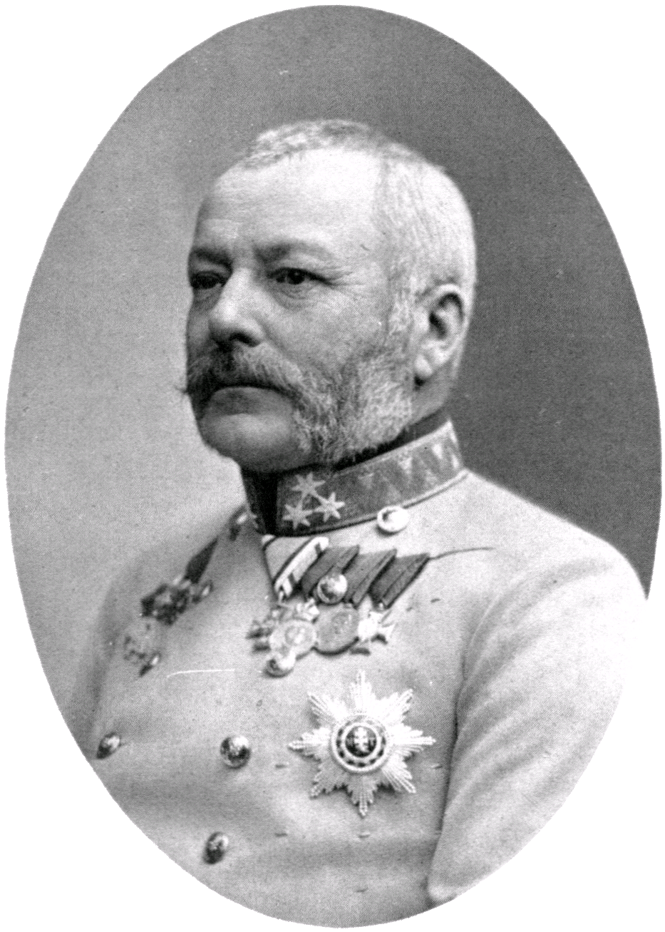 Archduke Friedrich, Duke of Teschen (1856-1936), Austrian general and entrepreneur